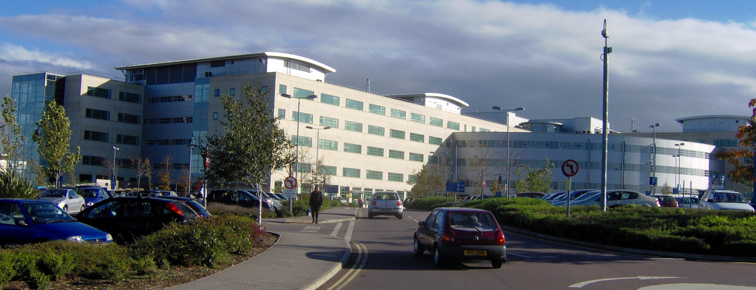 Great Western Hospital, Swindon. Taken by Rod Ward 26th Oct 2006